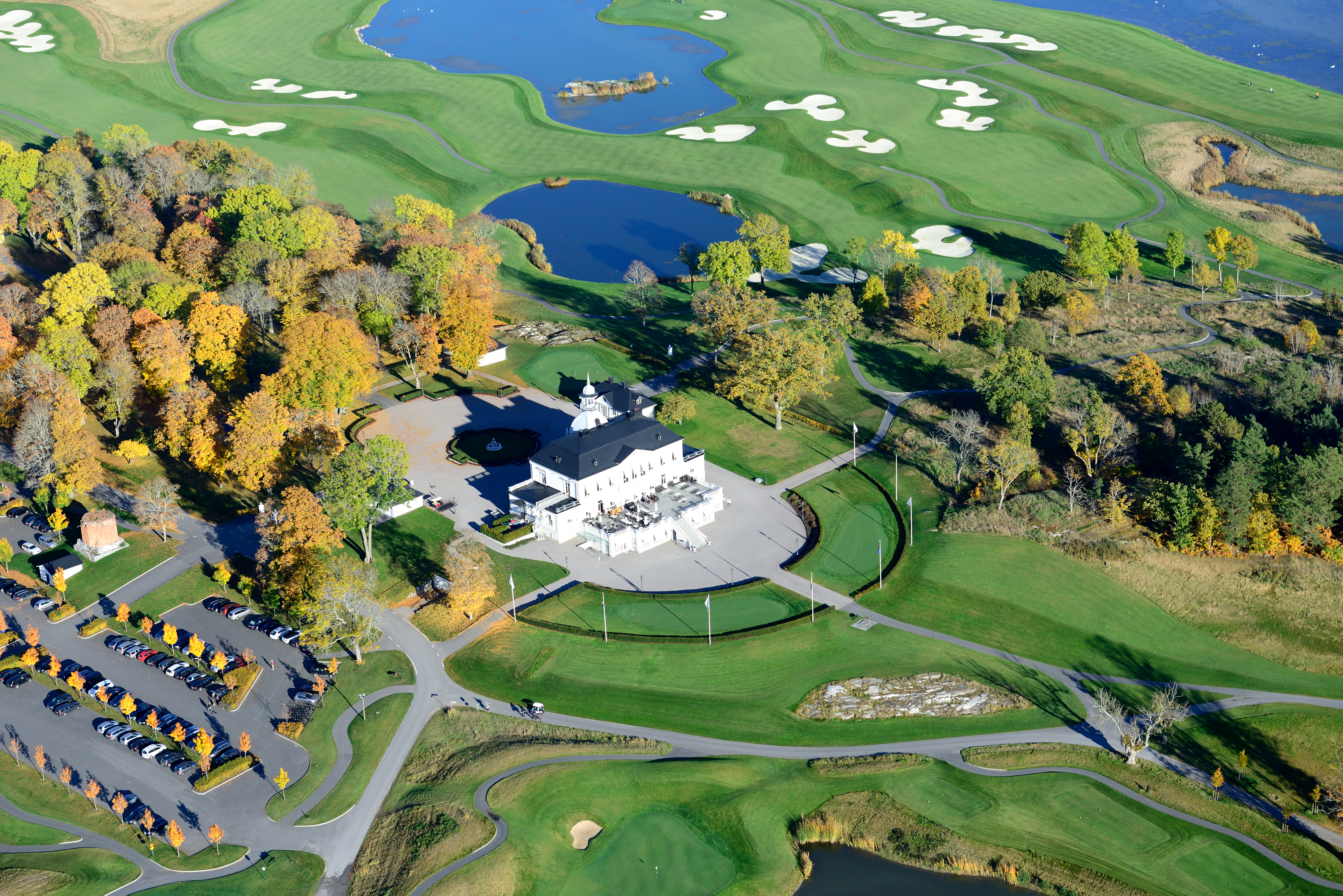 This aerial photograph has been approved for publishing by the Swedish Armed Forces with the ID: FMTM LG 10 830:14813 This tag does not indicate the copyright status of the attached work. A normal copyright tag is still required. See Commons:Licensing for more information.